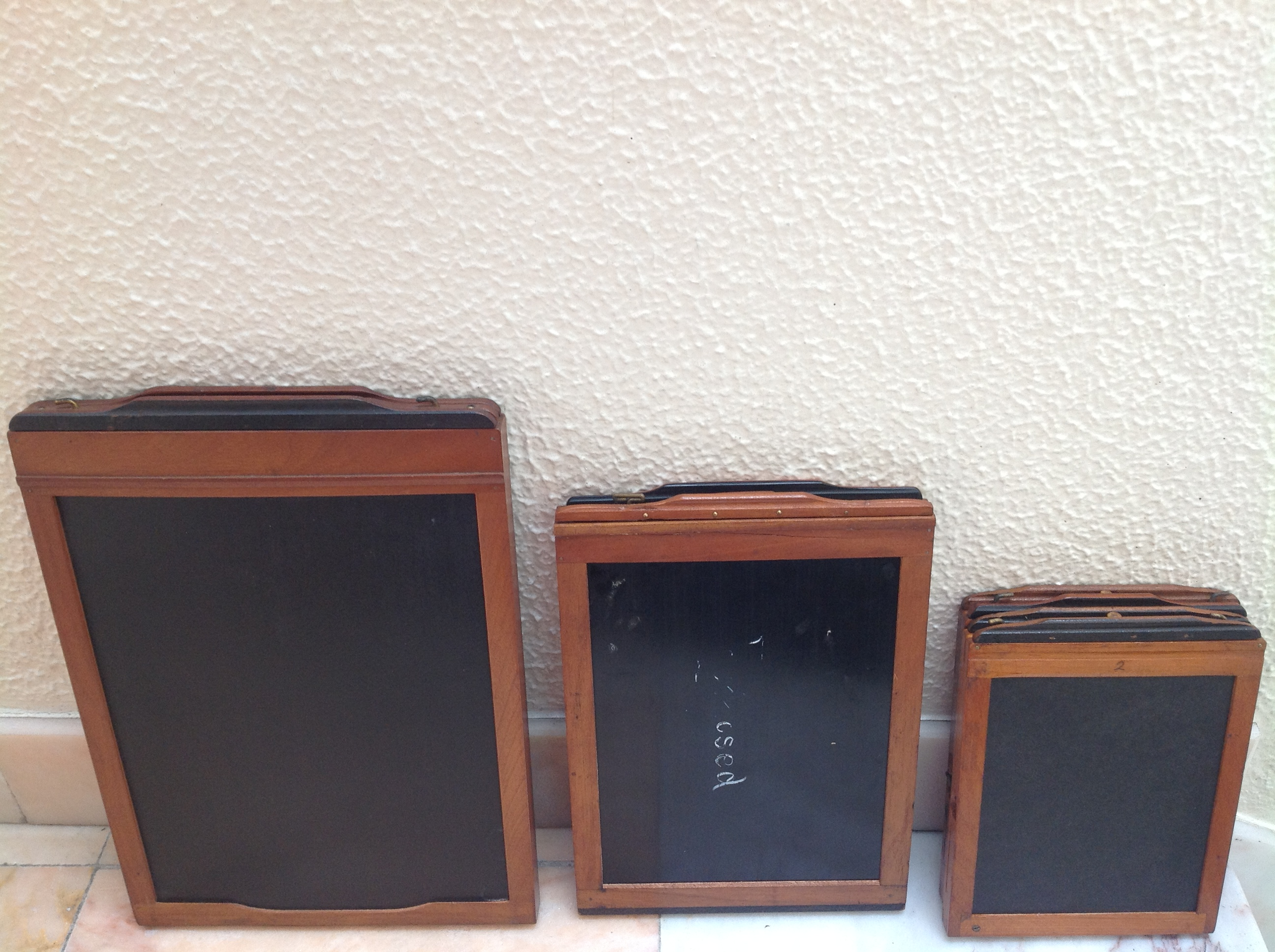 MAHOGANY DOUBLE DARK SLIDES, TO FIT LANCASTER Camera Supply , 1895-1902 PLATE CAMERA